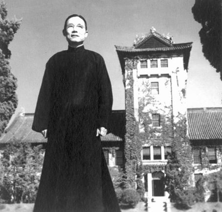 chen yu guang in JNU